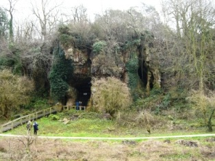 Church Hole Cave. See Creswell Crags.